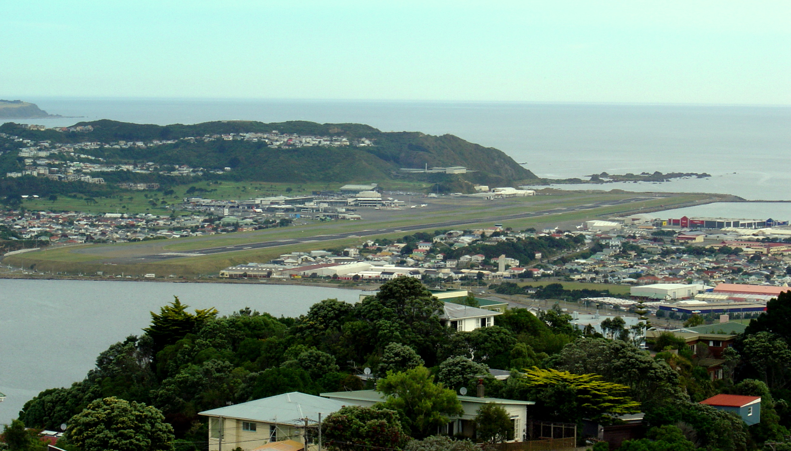 An oblique view of Wellington Airport from the summit of Mt Victoria. Wellington, New Zealand.